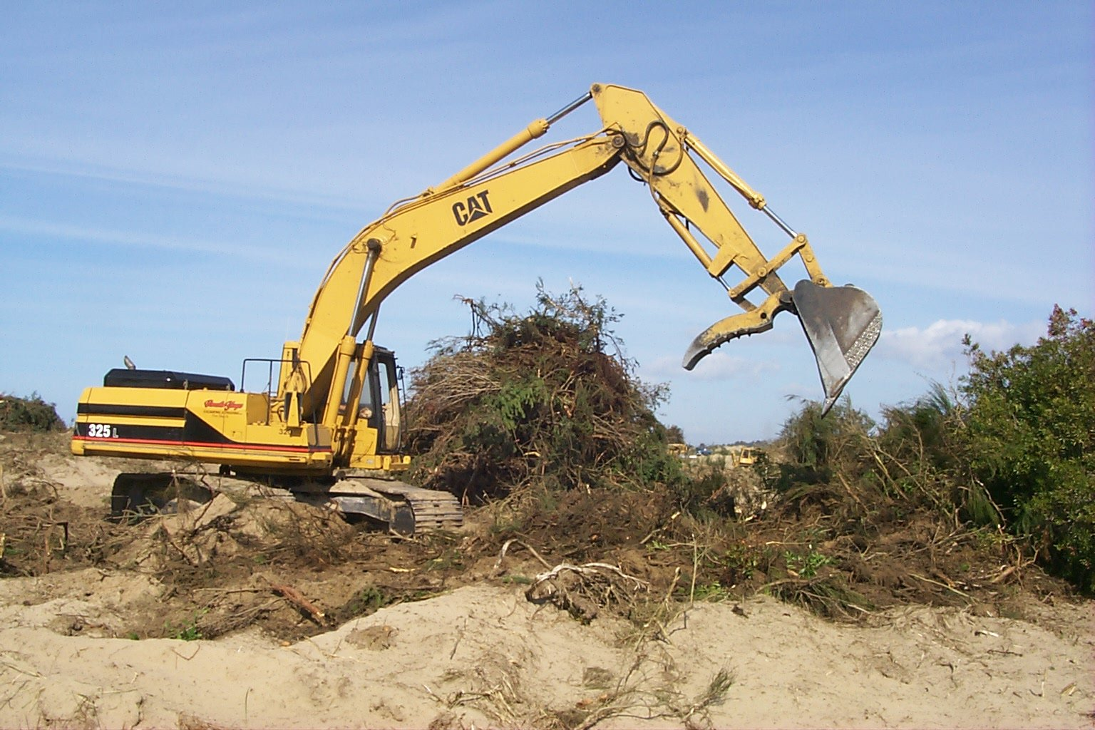 Excavator at beach working found at en.wikipedia: 21:27, 25 November 2004 . . Aarchiba